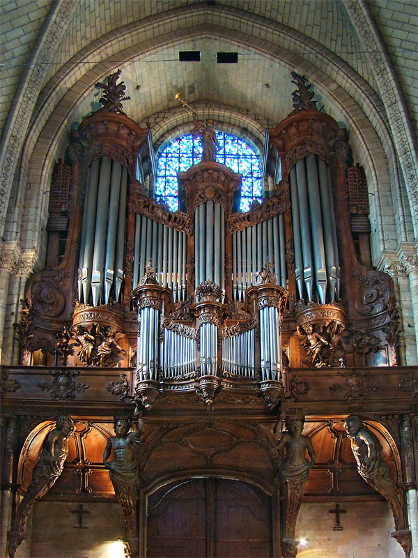 Cathedral of Saint-Maurice, Angers, Maine-et-Loire, Pays de la Loire, France. The great organ, made by Dangeville around 1750, and reconstructed in 1874 by Aristide Cavaillé-Coll.